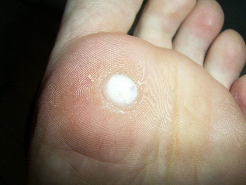 Plantar wart after treatment with salicylic acid. Despite several efforts the treatment failed. Dornwarze nach Behandlung mit Salicylsäure. Trotz regelmäßigen Anwendungen gelang es nicht, die tiefsitzende Warze zu entfernen.